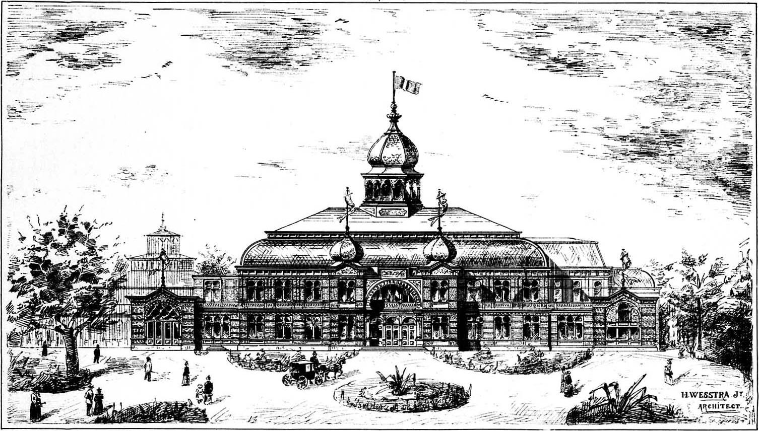 Concert hall at the Zoo in The Hague. 1893.